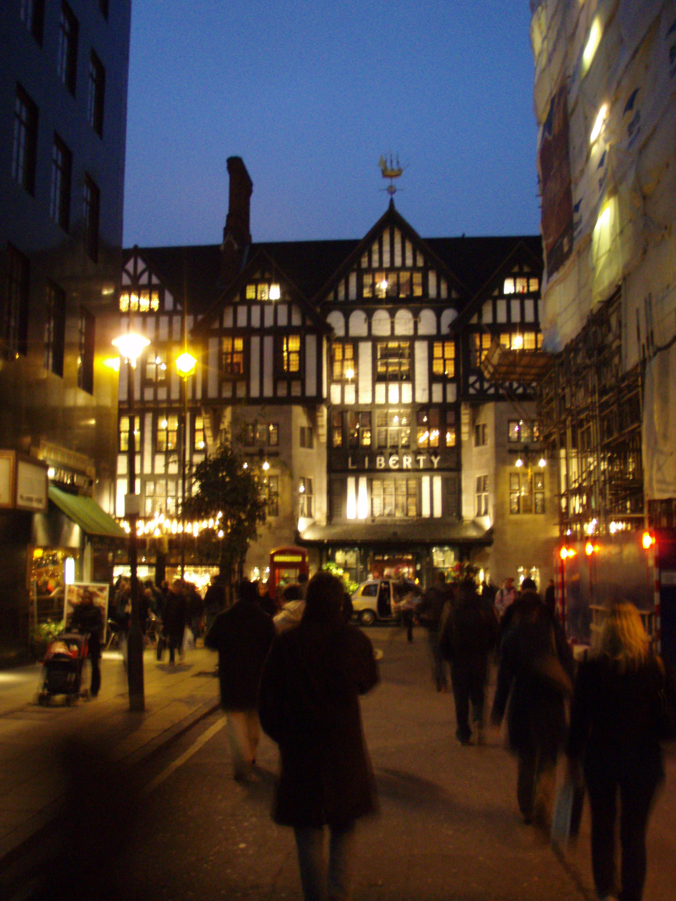 Description: Liberty - London, England. Image: Credited to Daquella manera.